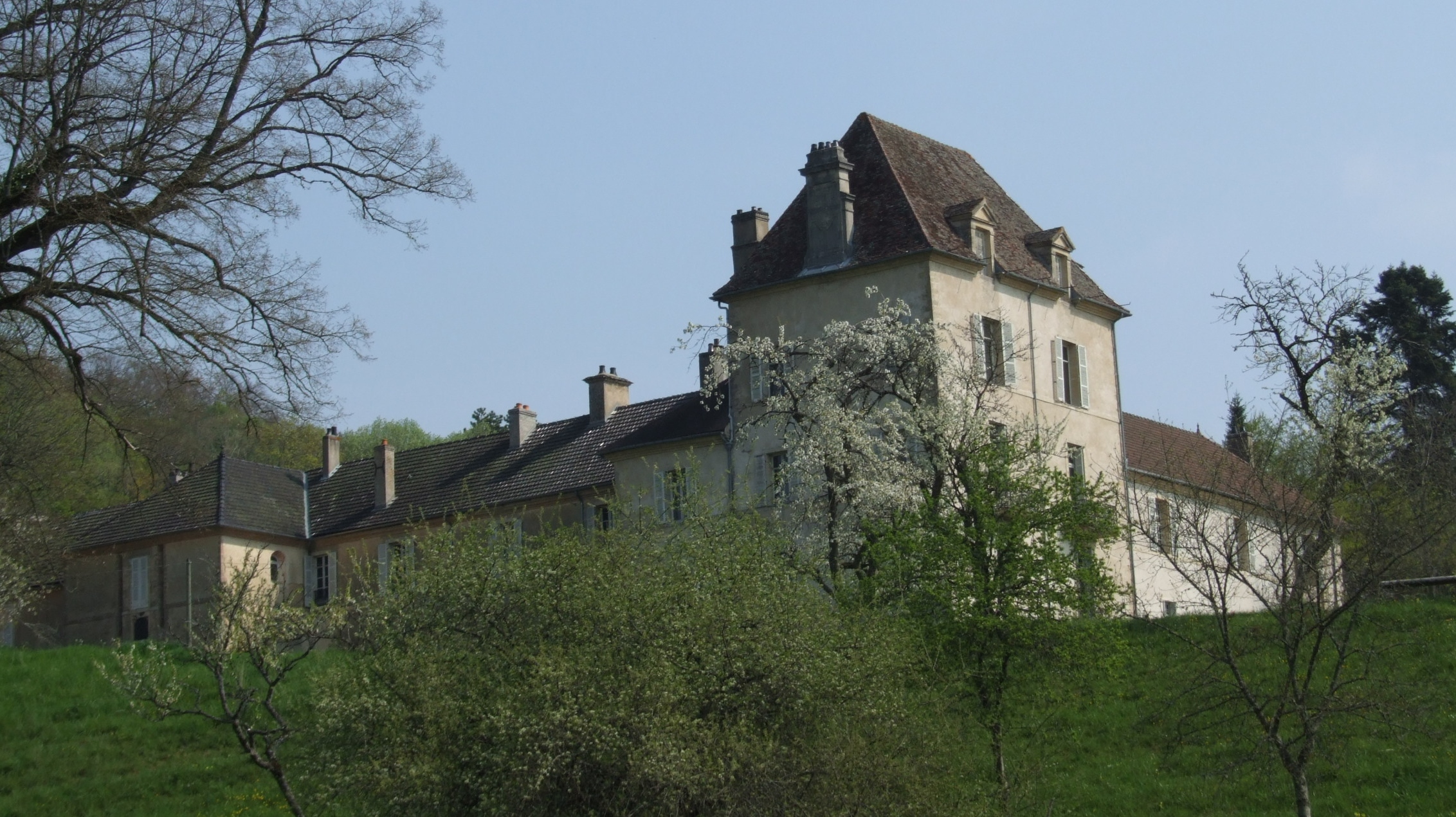 Lantenay castle, Lantenay, Burgundy, FRANCE